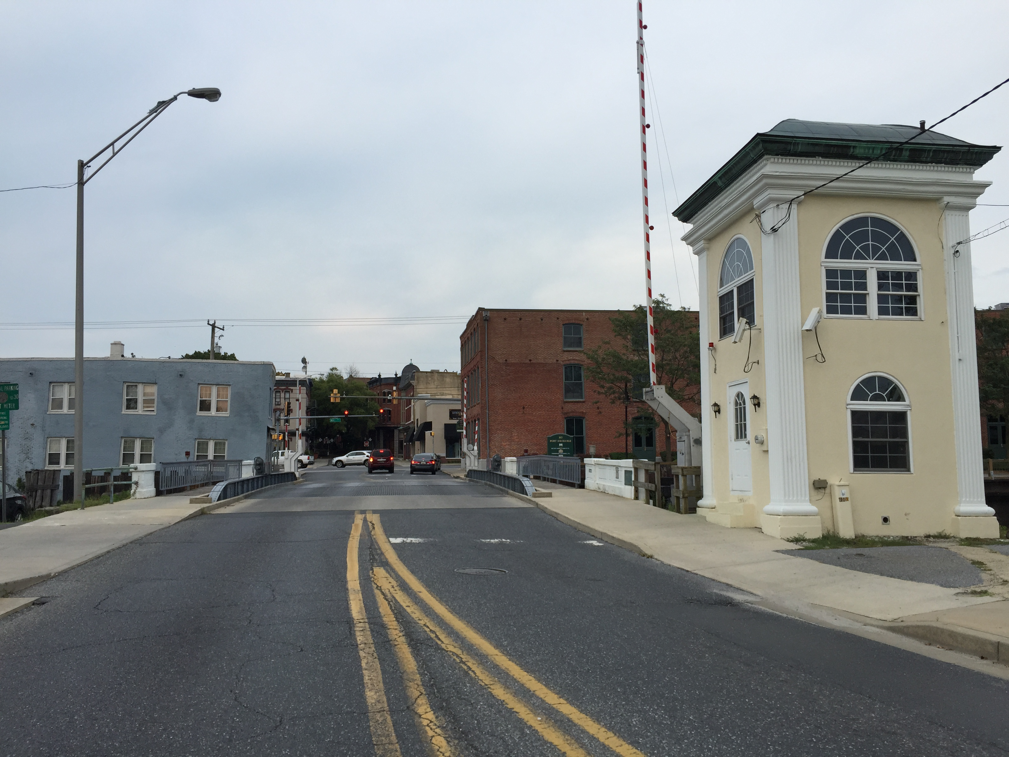 View east along Maryland State Route 991 (West Main Street Drawbridge) crossing over the Wicomico River in Salisbury, Wicomico County, Maryland